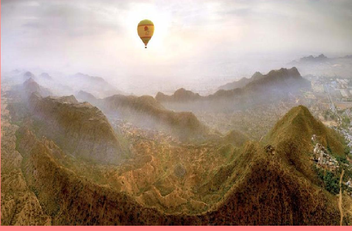 Taken from my neighborhood village